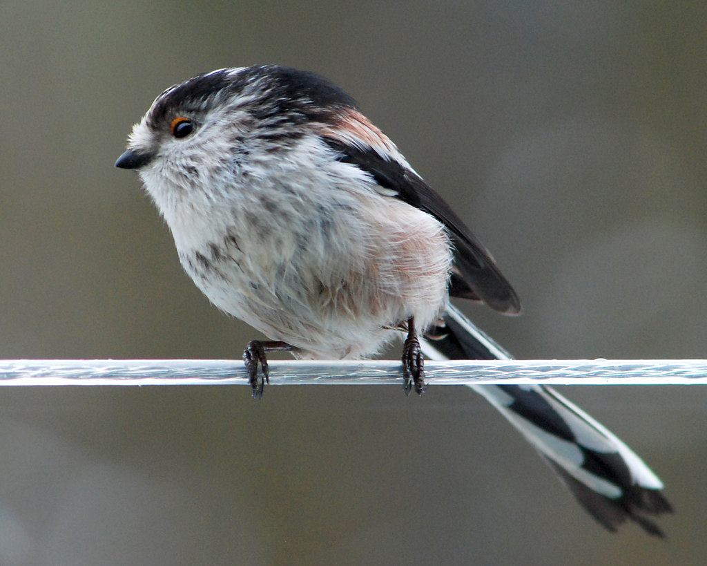 Long tailed Tit on a washing line This is a Long tailed Tit, one of many that feed in this garden. Taken with a 300mm Nikkor through a double glazed window.